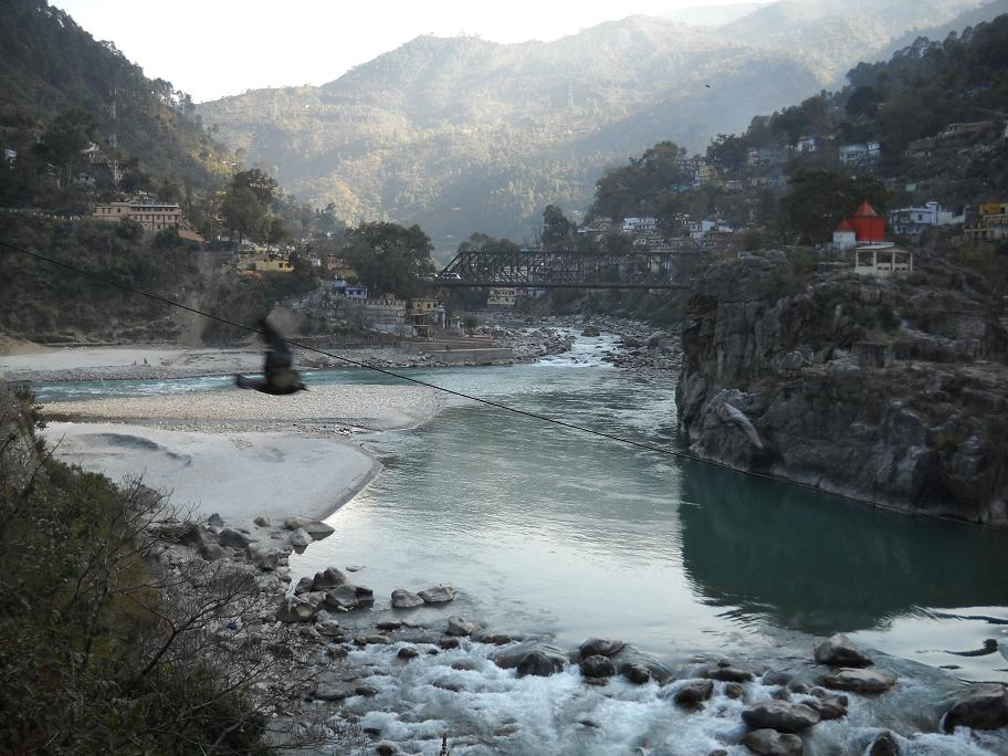 The Alaknanda River flowing in from the left meets the Pindar River (center background) to flow on as the Alaknanda again (foreground) at Karnaprayag, in the Garhwal Himalayas, in Uttarakhand, India.